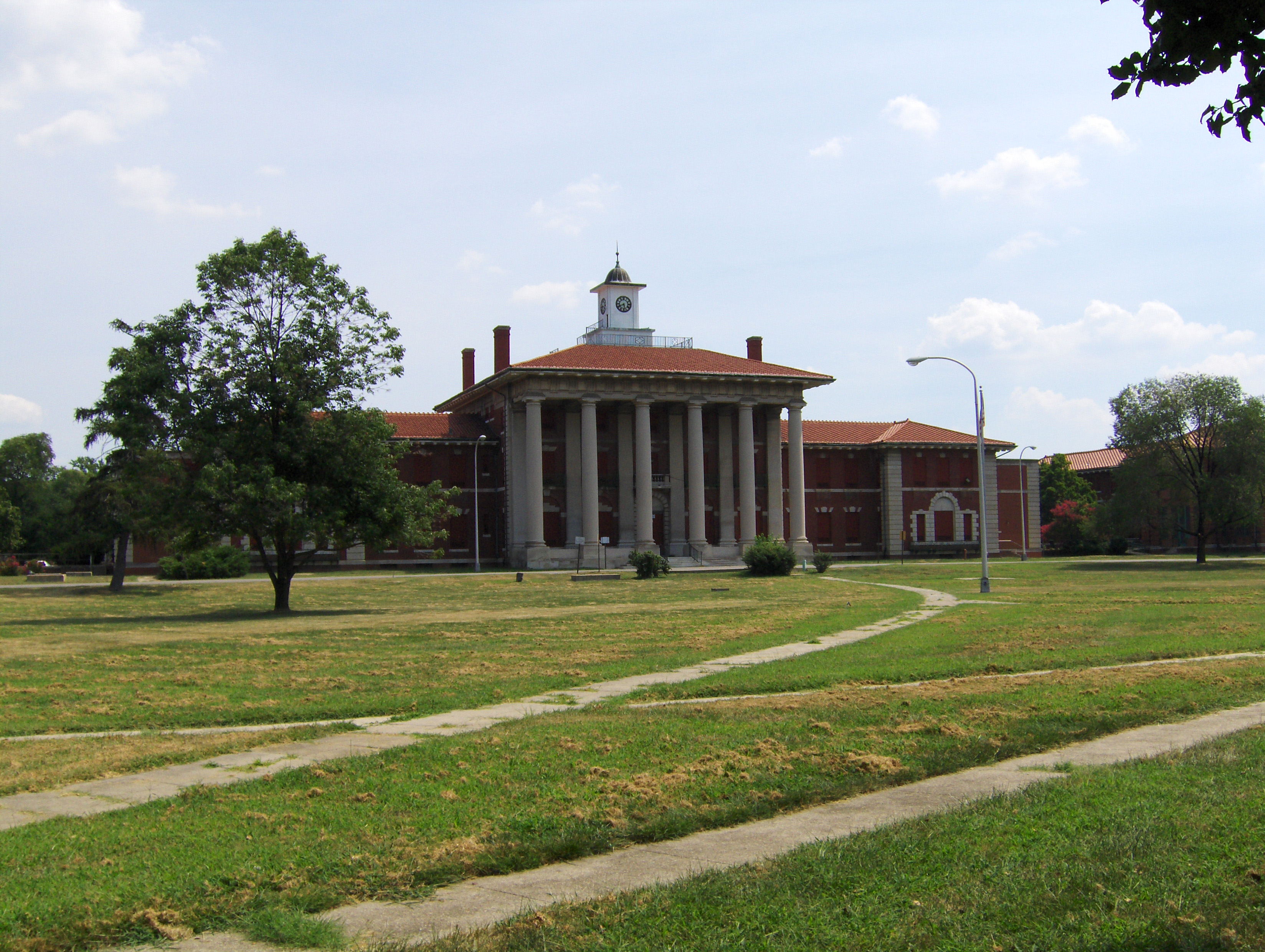 The Main Building at St. Elizabeths Hospital in Washington, D.C. Like most buildings at St. Elizabeths, this one has been abandoned.